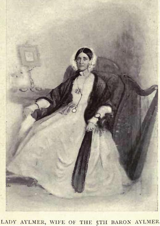 Lady Louisa Anne Aylmer wife of Matthew Whitworth, 5th Lord Aylmer